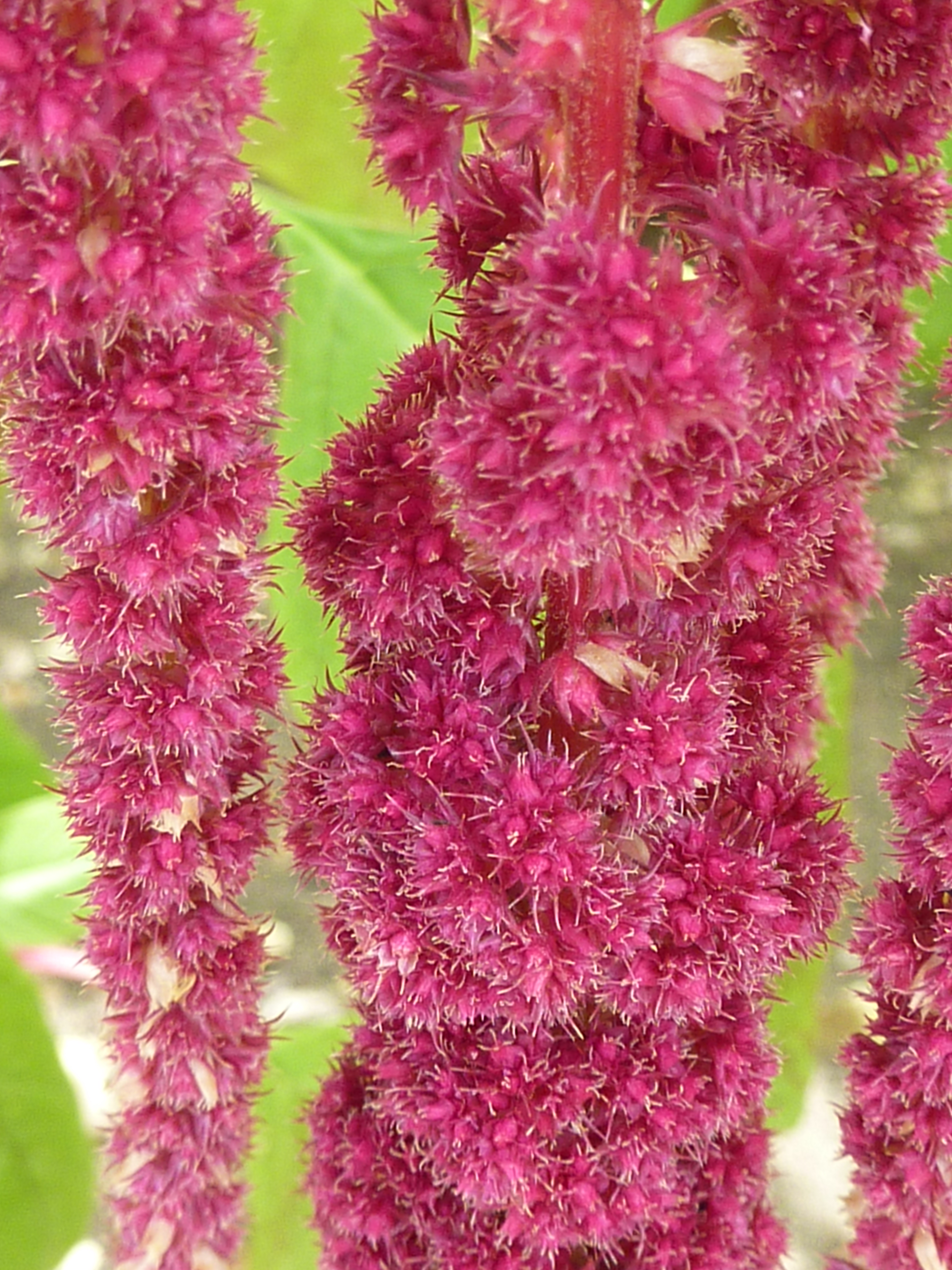 Taken in the Cambridge University Botanic Garden